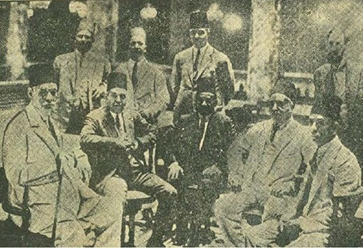 Saad Zaghloul with Talaat Harb in Bank Masr Opening